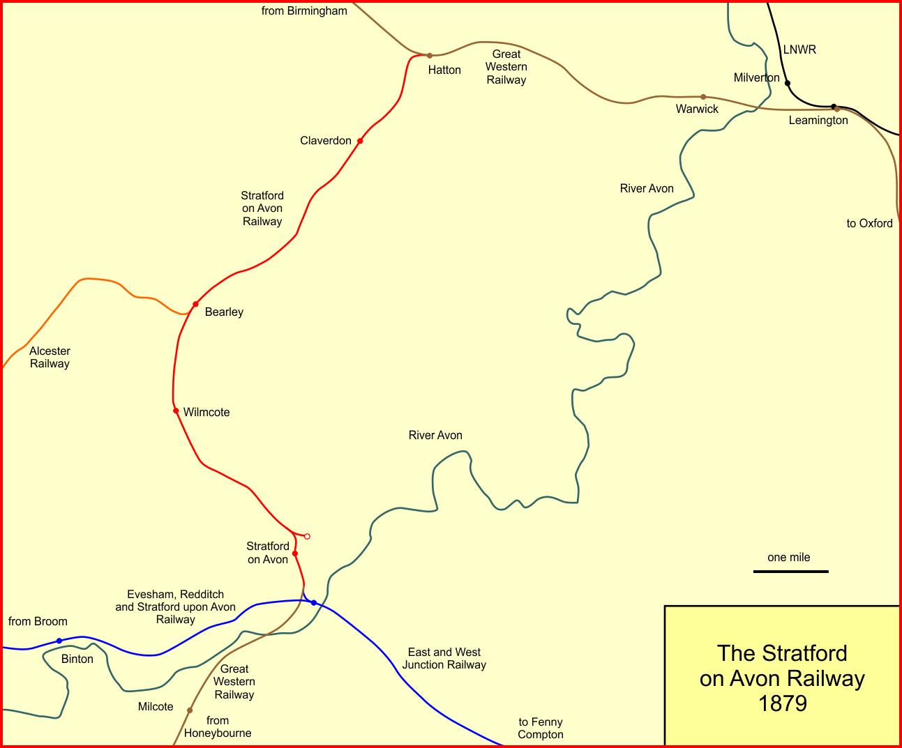 System map of the Stratford on Avon Railway, England in 1879